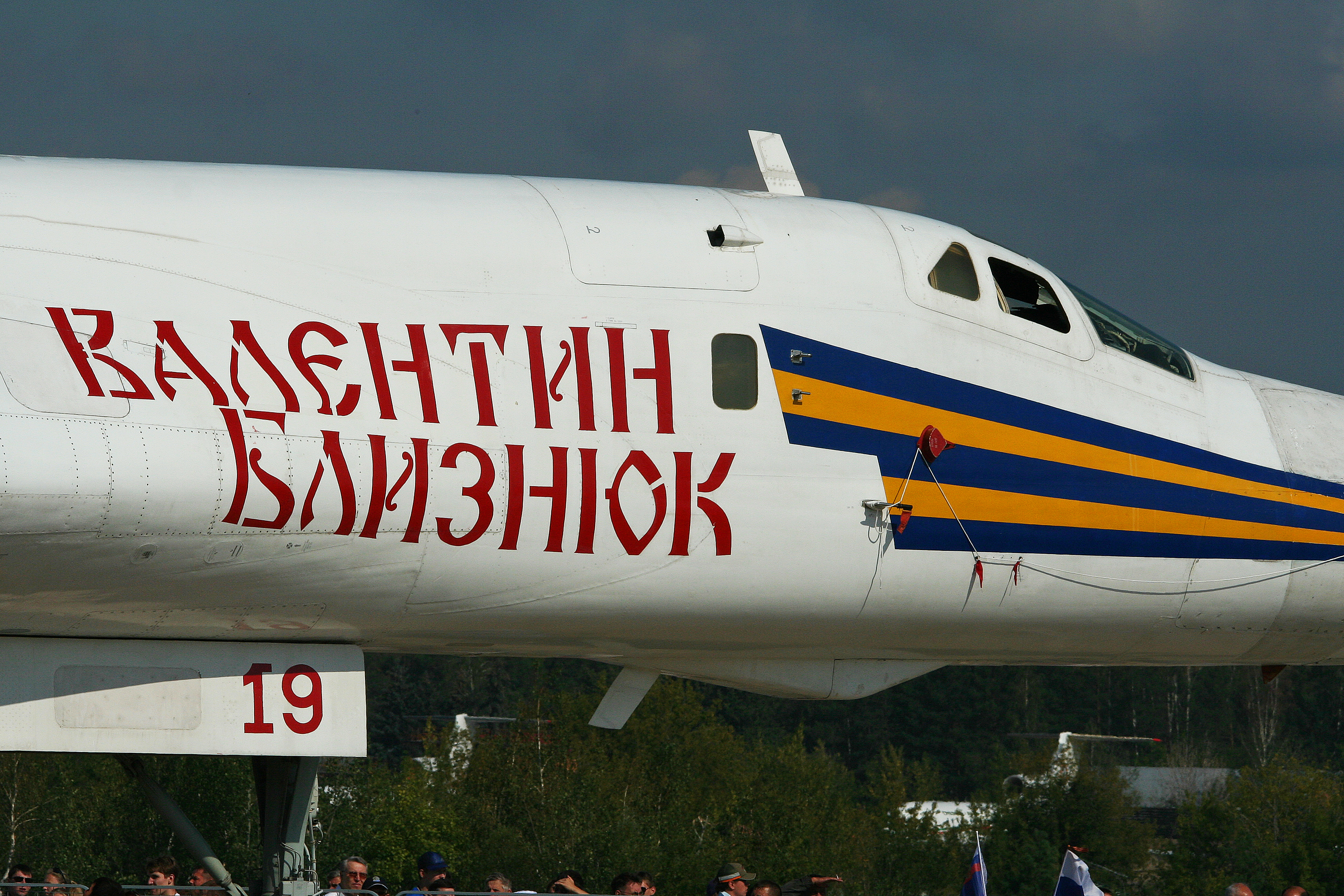 This aircraft is named Valentin Bilznyuk after the types designer. It is operated by 6950AvB / 2AvGr Russian Air Force and based at Engels. l/n 02-02. On static display at the Russian Air Force 100th Anniversary Airshow. Zhukovsky, Russia. 12-8-2012